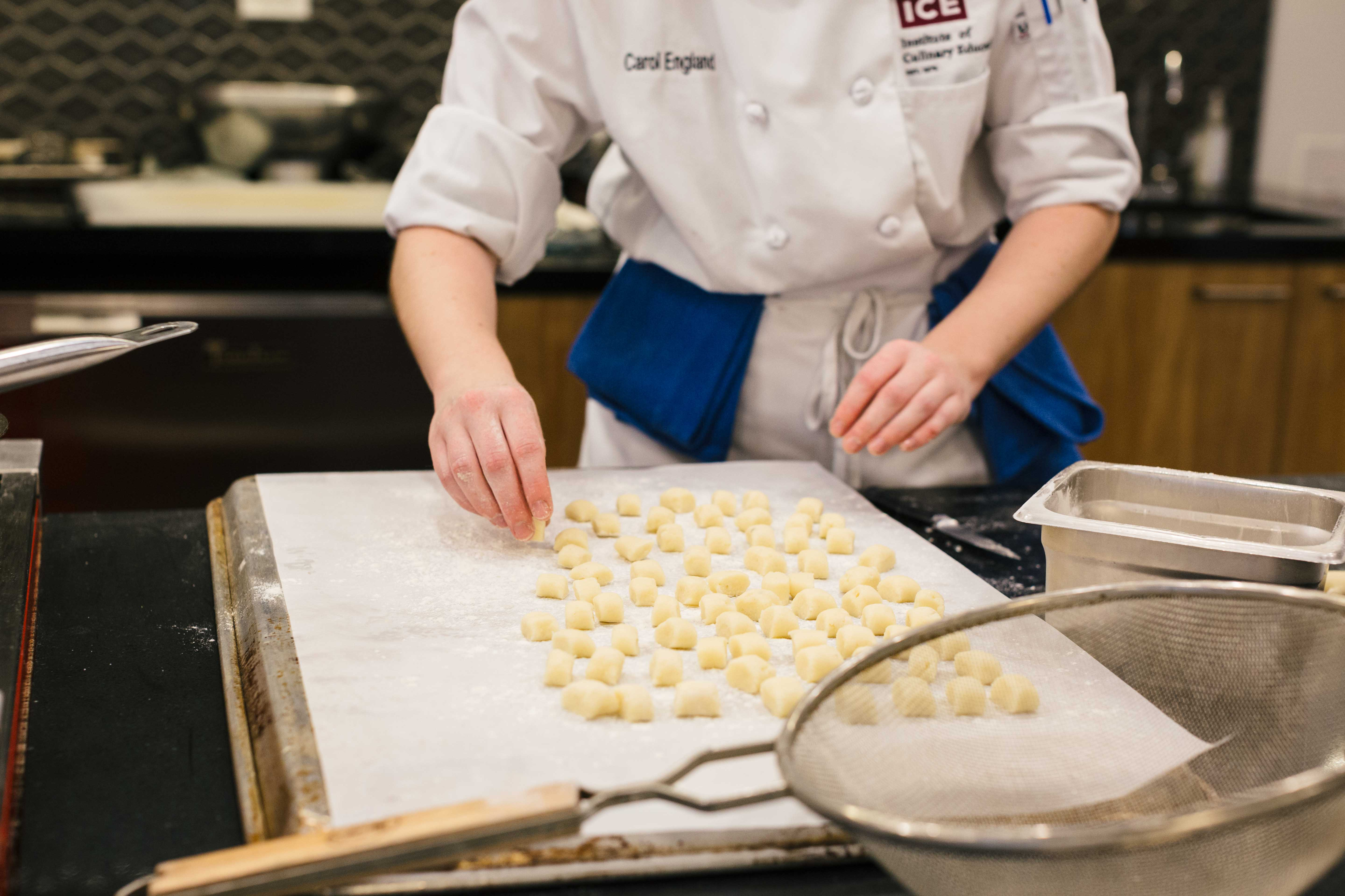 This is an image of a chef, in a white chef's coat, preparing food that is on a metal baking sheet.